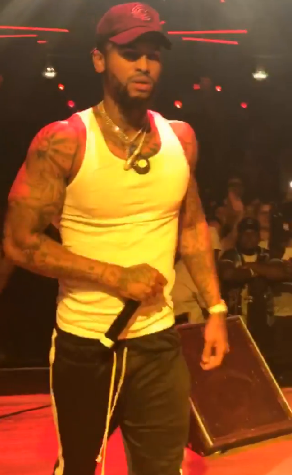 Dave East performing in June 2017